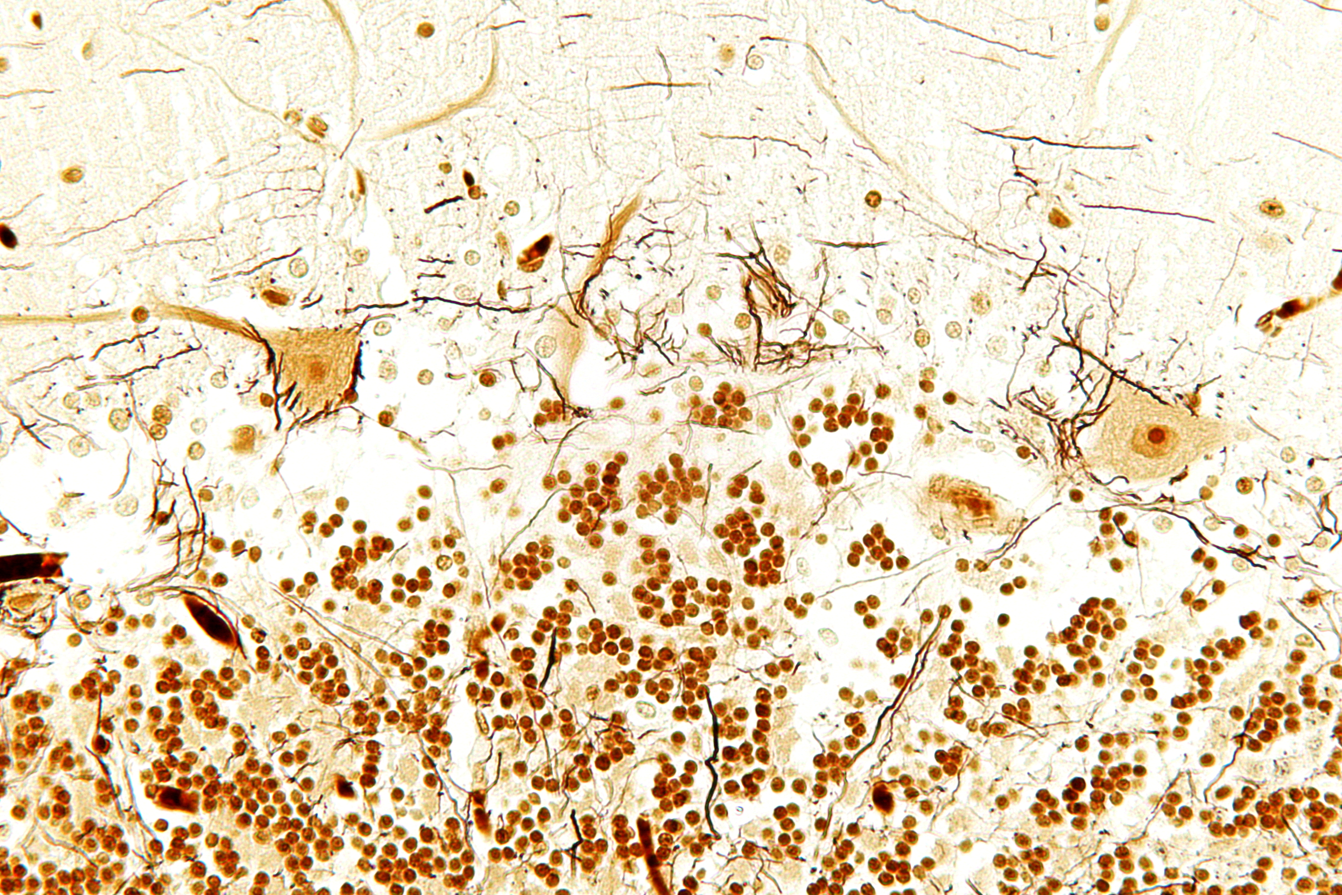 Very high magnification micrograph of the cerebellum (cerebellar cortex). Bielschowsky stain. Related images Intermed. mag. High mag. Very high mag.